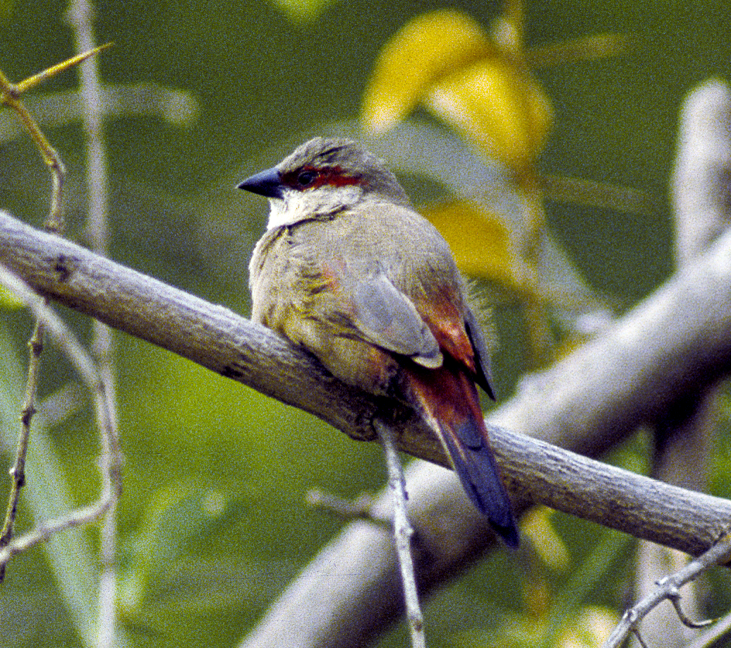 Crimson-rumped Waxbill - Kenya_0334